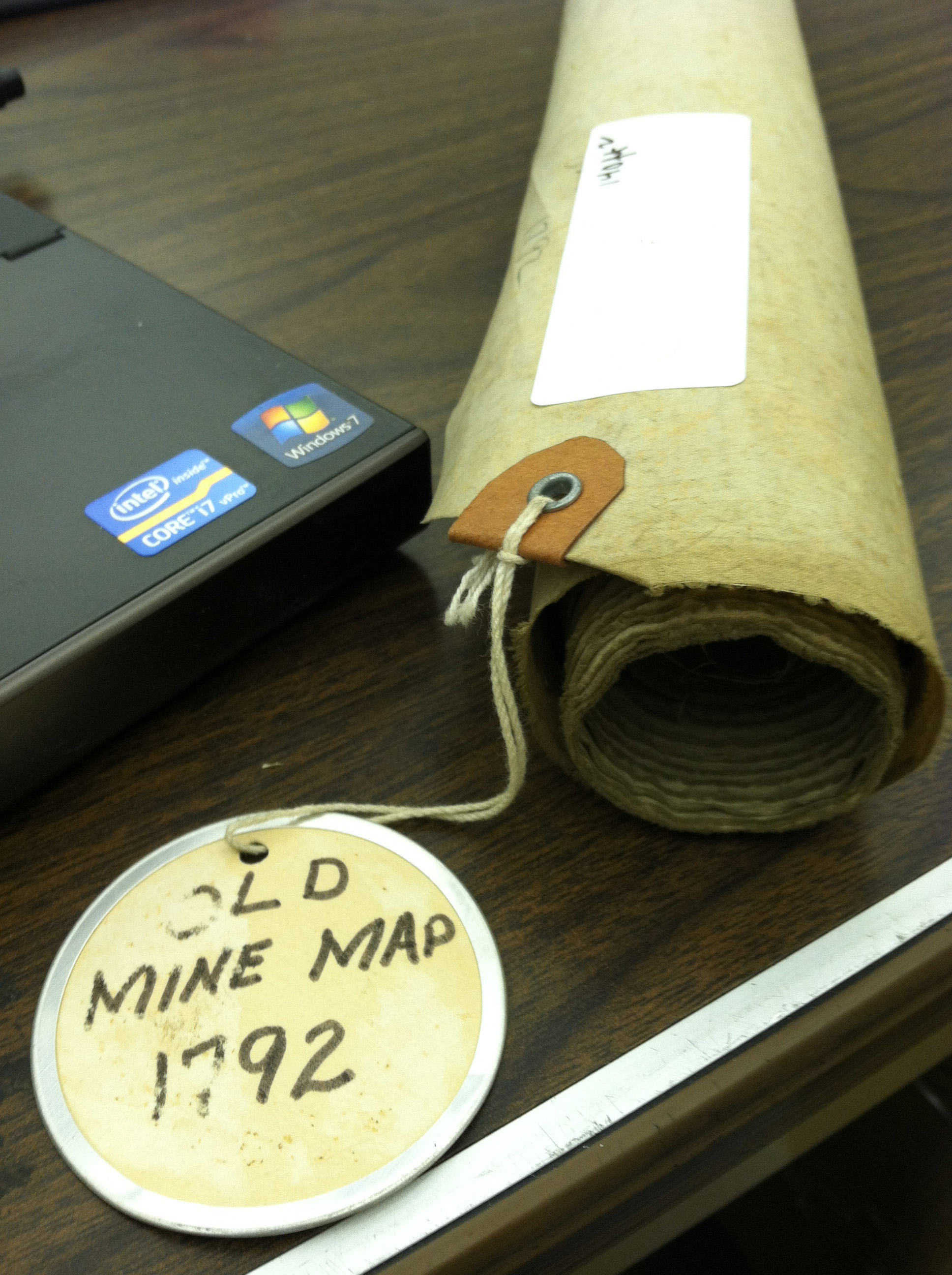 Rolled up Old Mine map